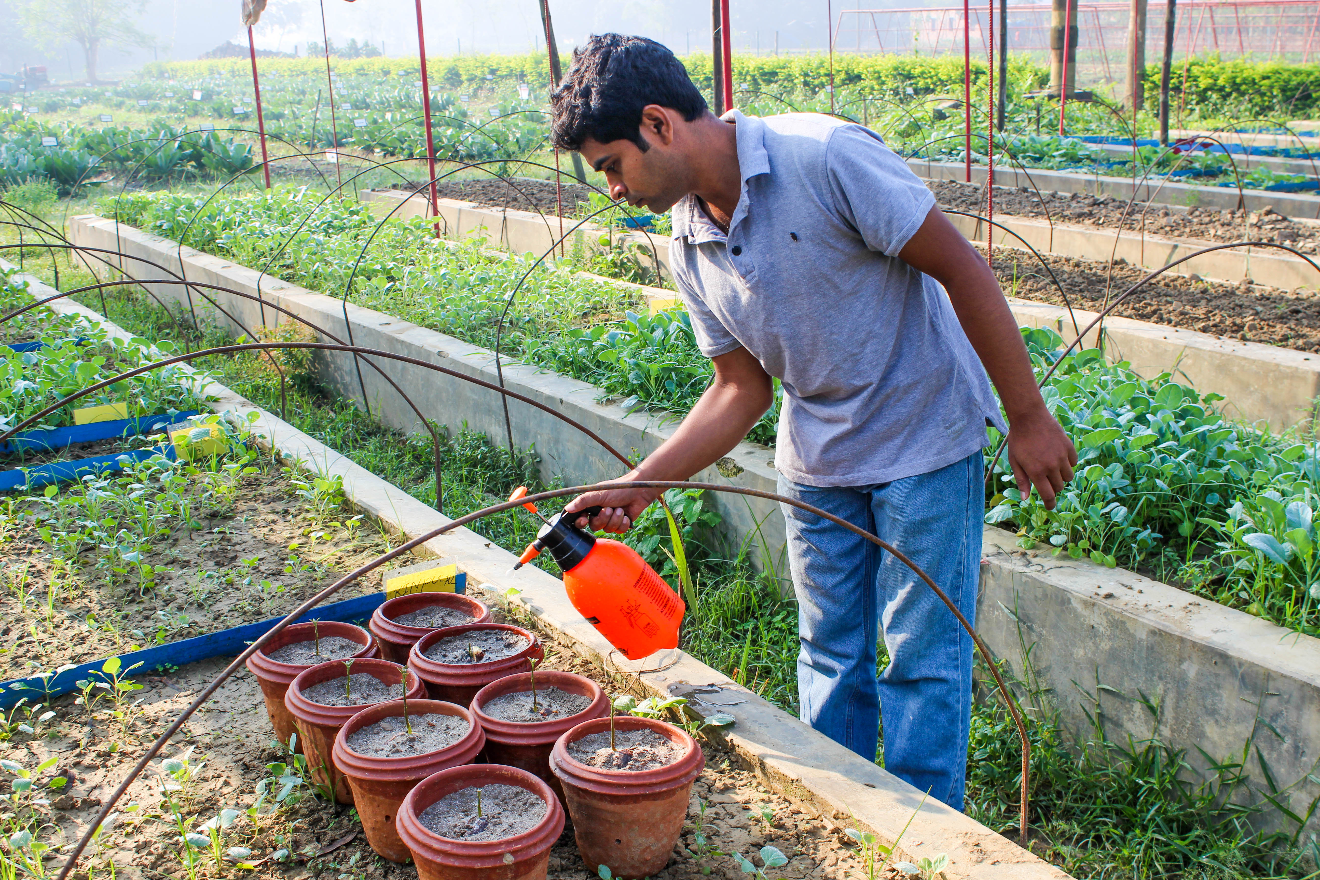 Spraying water on avocado seedling at Malik's Farm